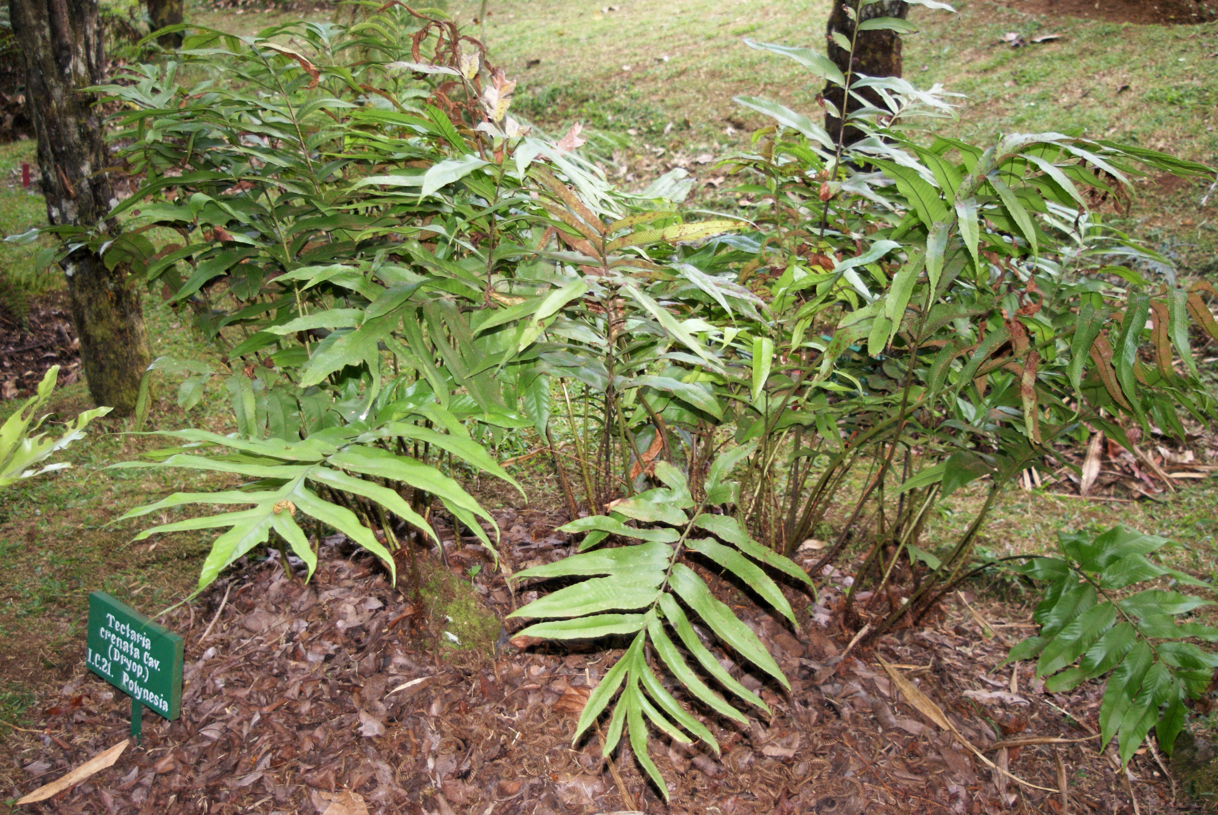 Tectaria crenata Cav.